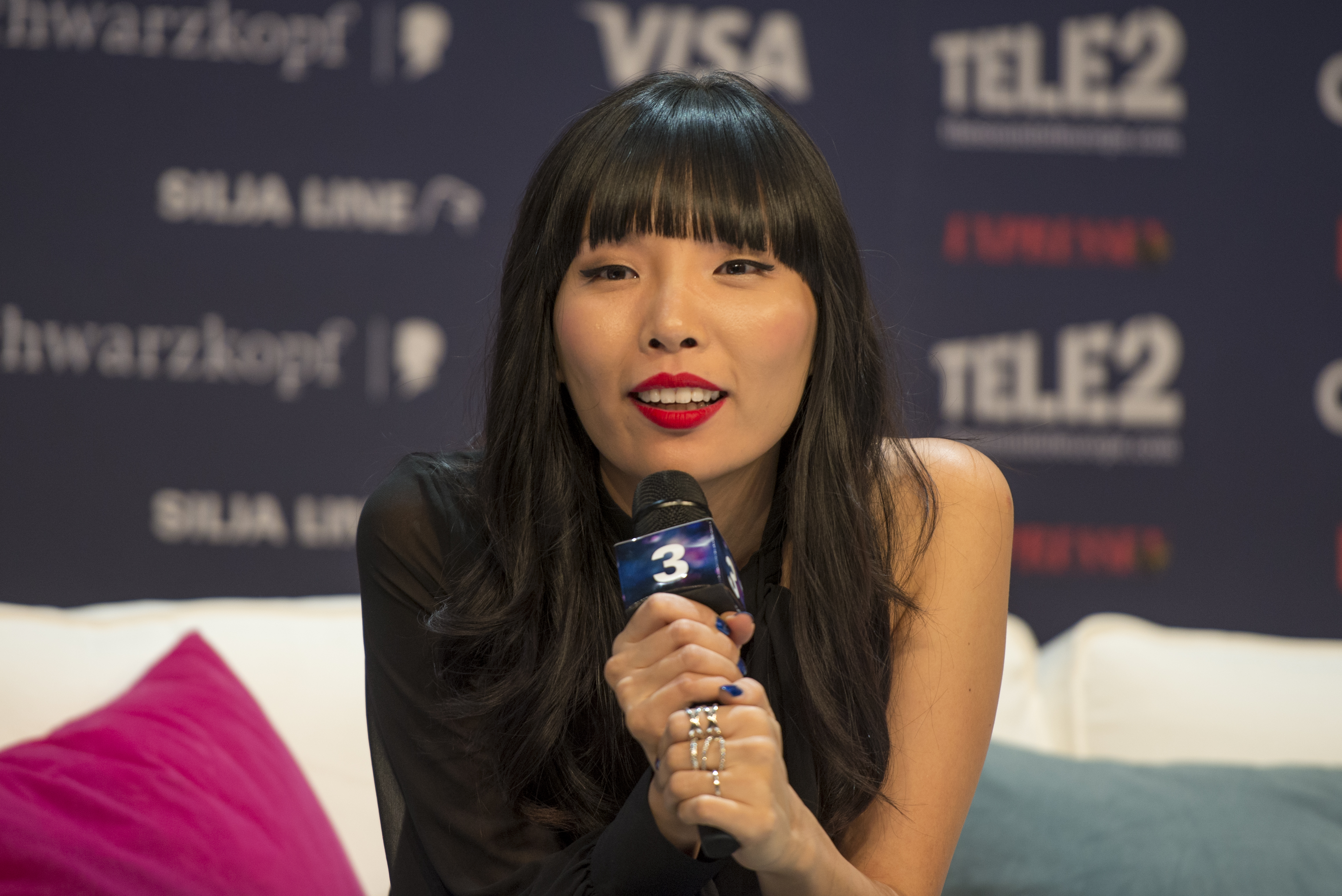 Dami Im at a Meet & Greet during the Eurovision Song Contest 2016 in Stockholm. (Help translate this text)